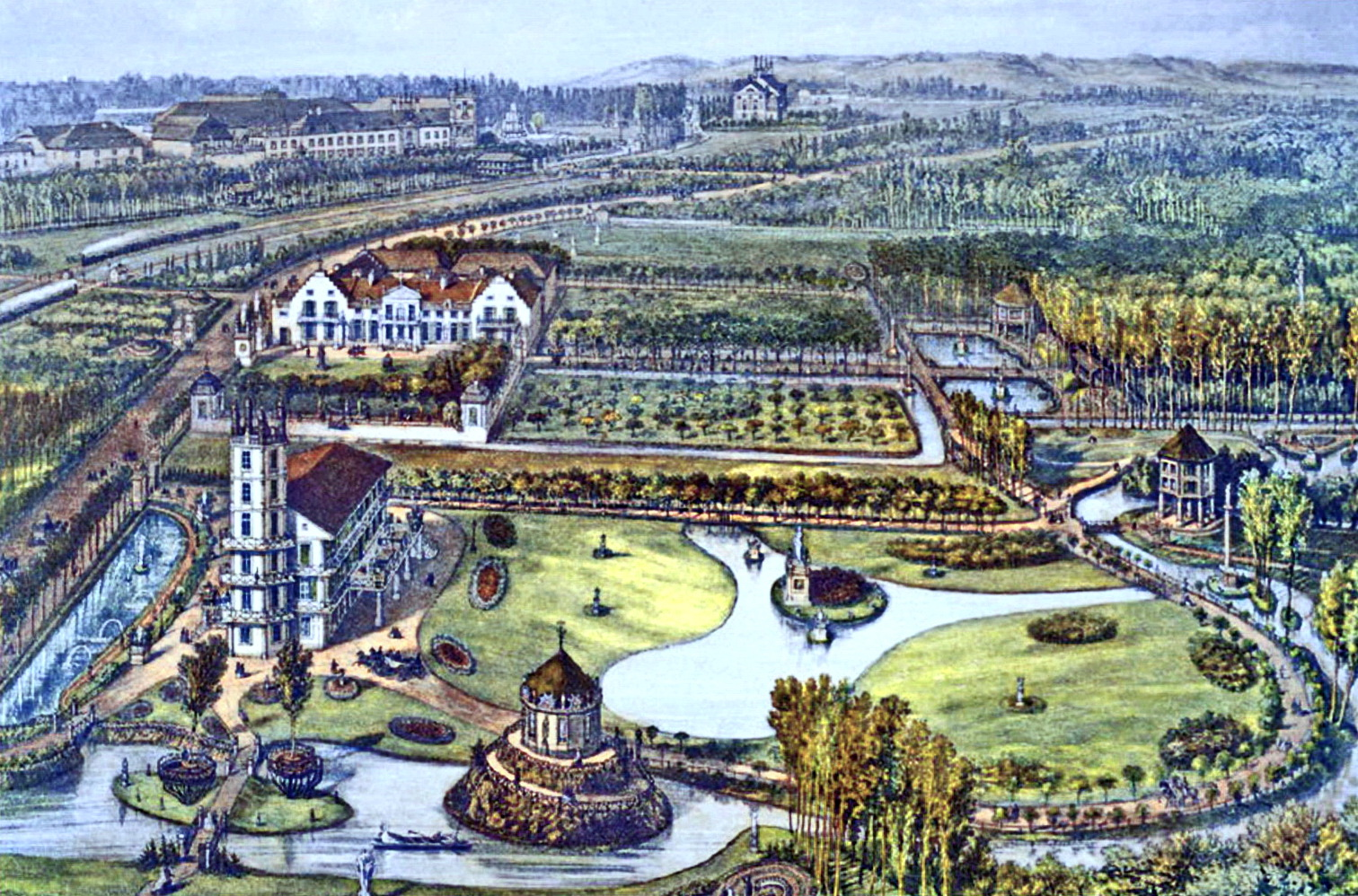 Print from the "family album" of Petrus Regout with his estates north of Maastricht. In the foreground the newly-built grand hotel & restaurant La Petite Suisse with extensive water gardens. The hotel was demolished and rebuilt as a villa in 1880 by one of Regout's daughters. Behind it the country house La Grande Suisse, before it was extended. In the background the family house Vaeshartelt and the villa Klein Vaeshartelt.